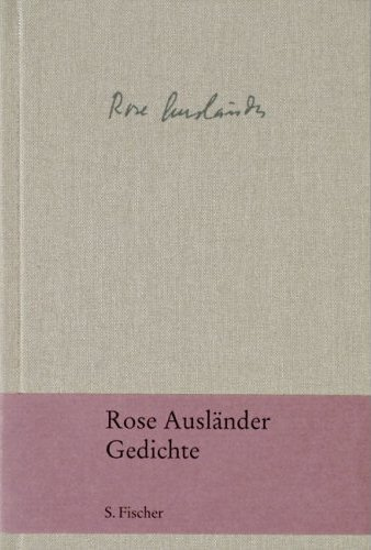 Book covers from Rose Ausländer "Gedichte" 2001